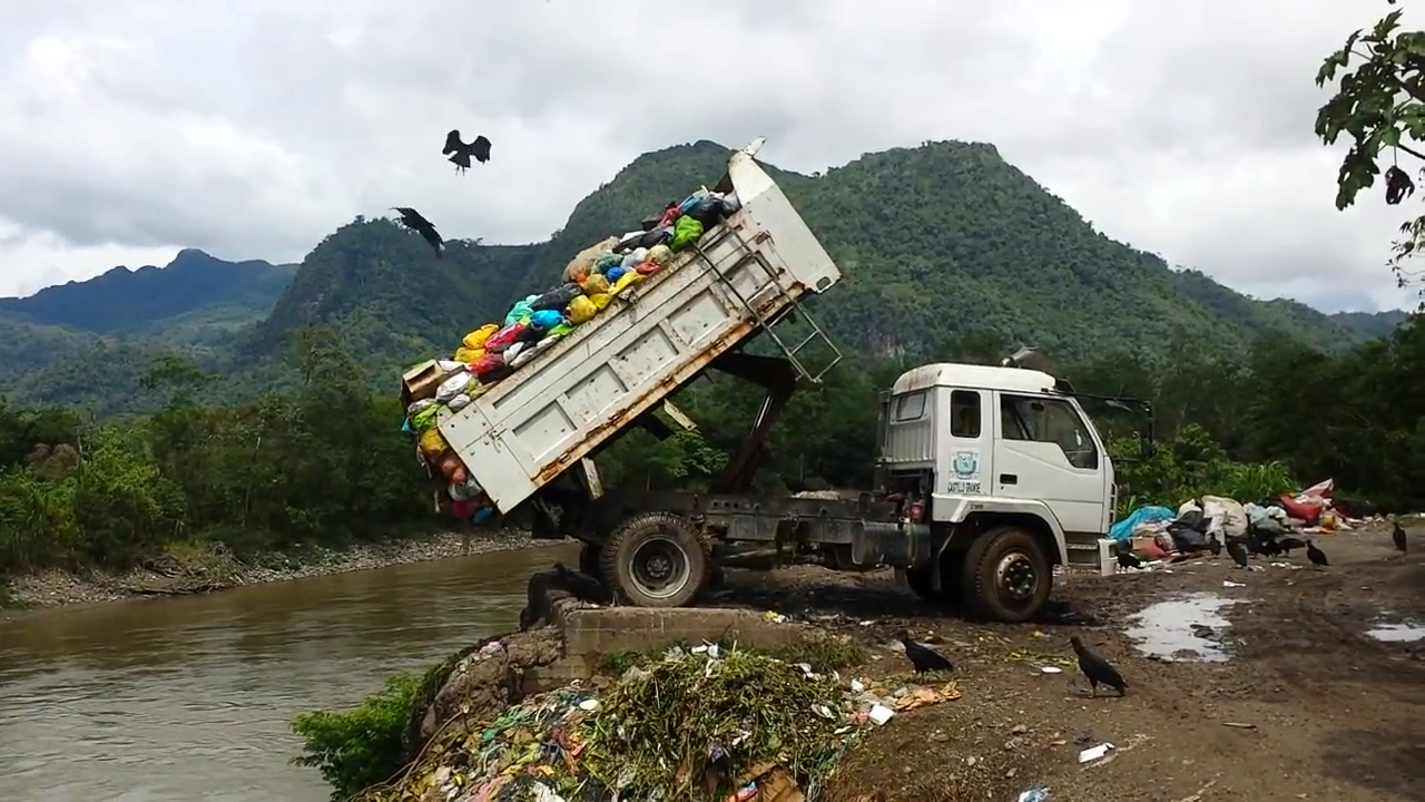 Dropping ramp to dump garbage and trash directly into Huallaga River in Peru.Located just one kilometer from the city of Tingo Maria (Peru), it is estimated that this landfill has a history of more than 30 years and received a total of approximately 30 to 34 tons of garbage daily. In this highly hazardous hospital waste dump containing waste from the Hospital biocontaminated of Tingo Maria, which are arranged directly on the Huallaga river by garbage trucks of the municipality they are also deposited.Object location9° 16′ 44.43″ S, 75° 59′ 59.54″ W